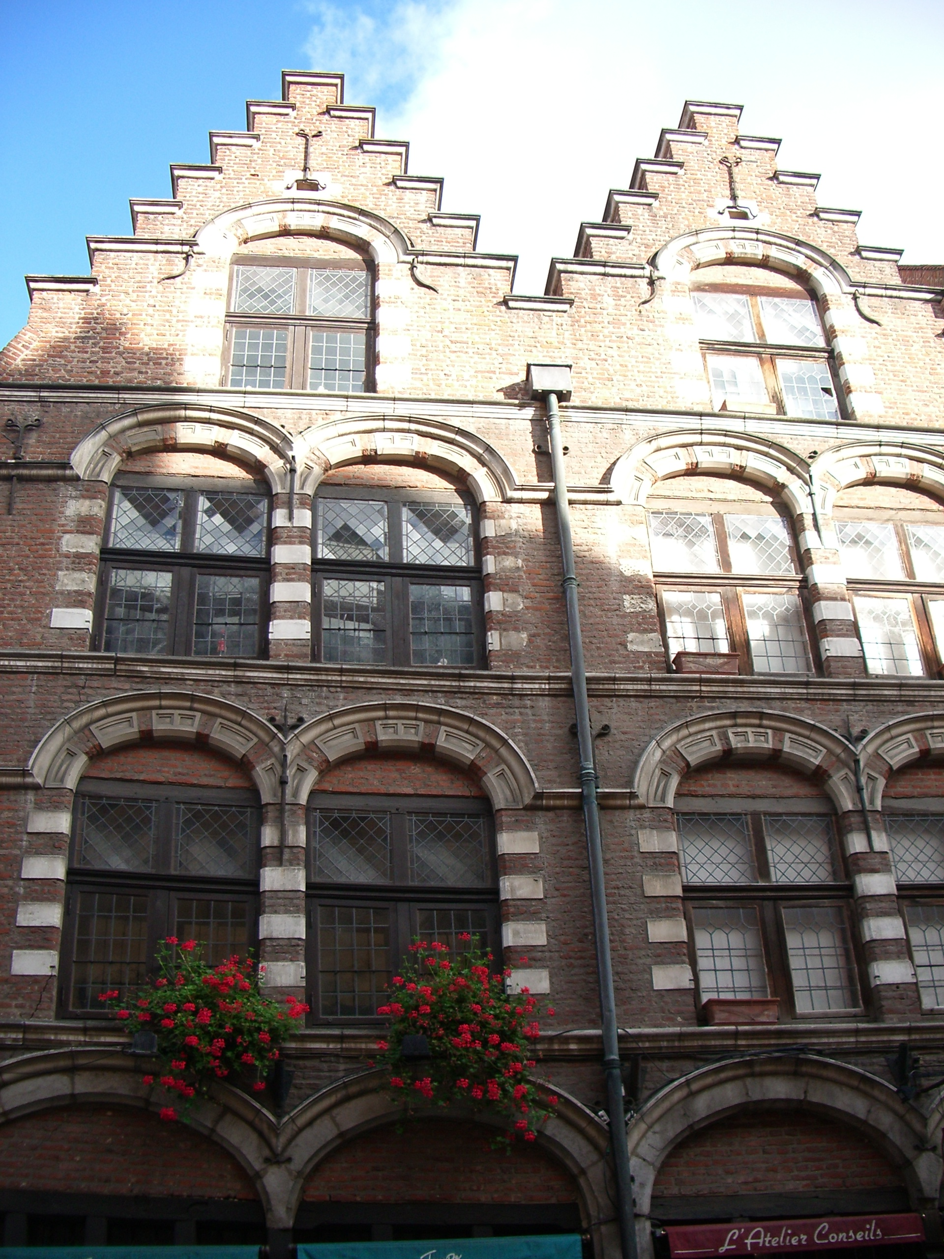 Old house in Monnaie street in Lille, Nord, France